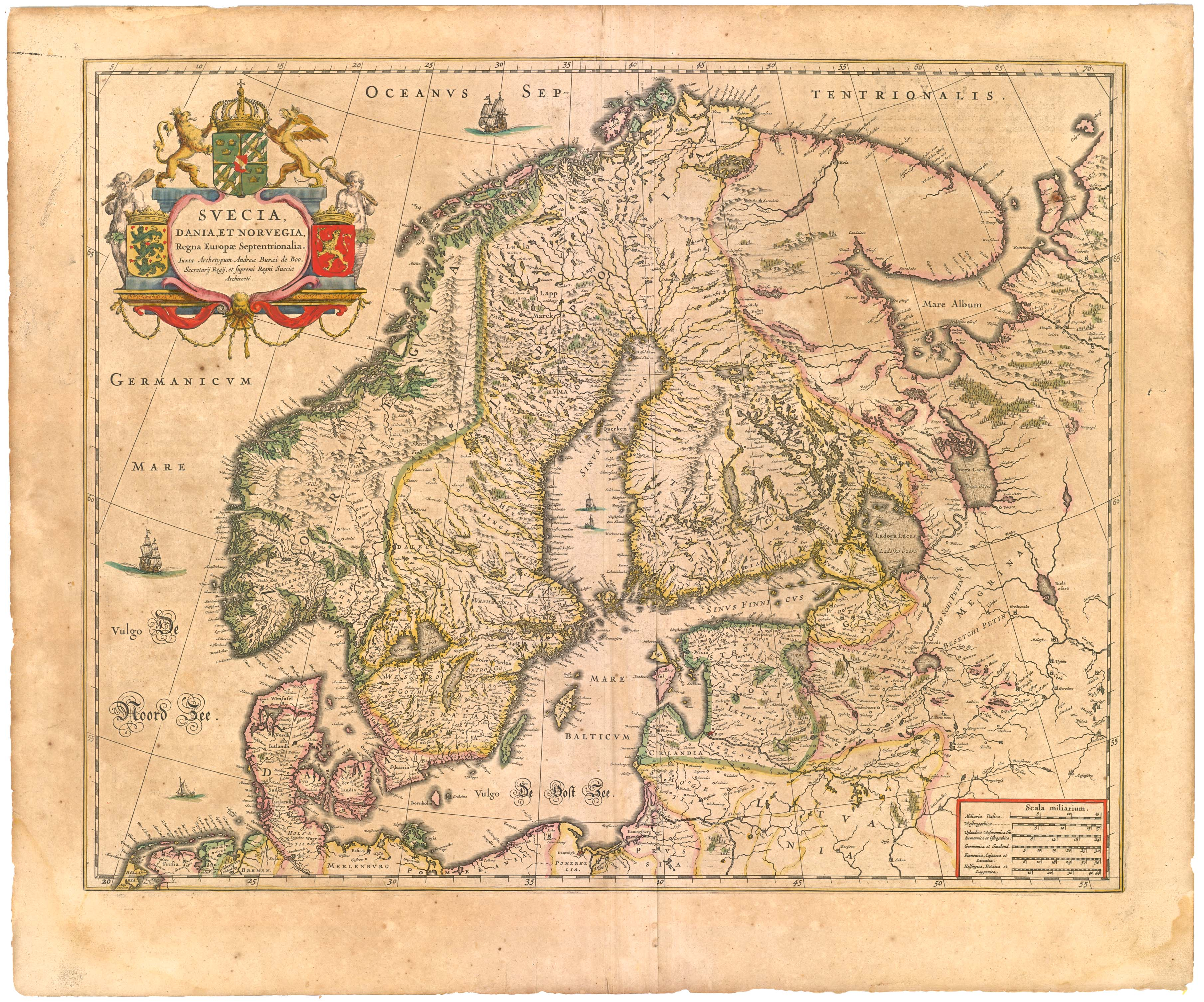 Title : Suecia Dania et Norvegia regna Europæ septentrionolia (Sweden, Denmark and Norway kingdoms of northern Europe)from"Theatrum Orbis Terrarum, sive Atlas Novus in quo Tabulæ et Descriptiones Omnium Regionum, Editæ a Guiljel et Ioanne Blaeu"(Theater of the World, or a New Atlas of Maps and Representations of All Regions, Edited by Willem and Joan Blaeu), 1645.